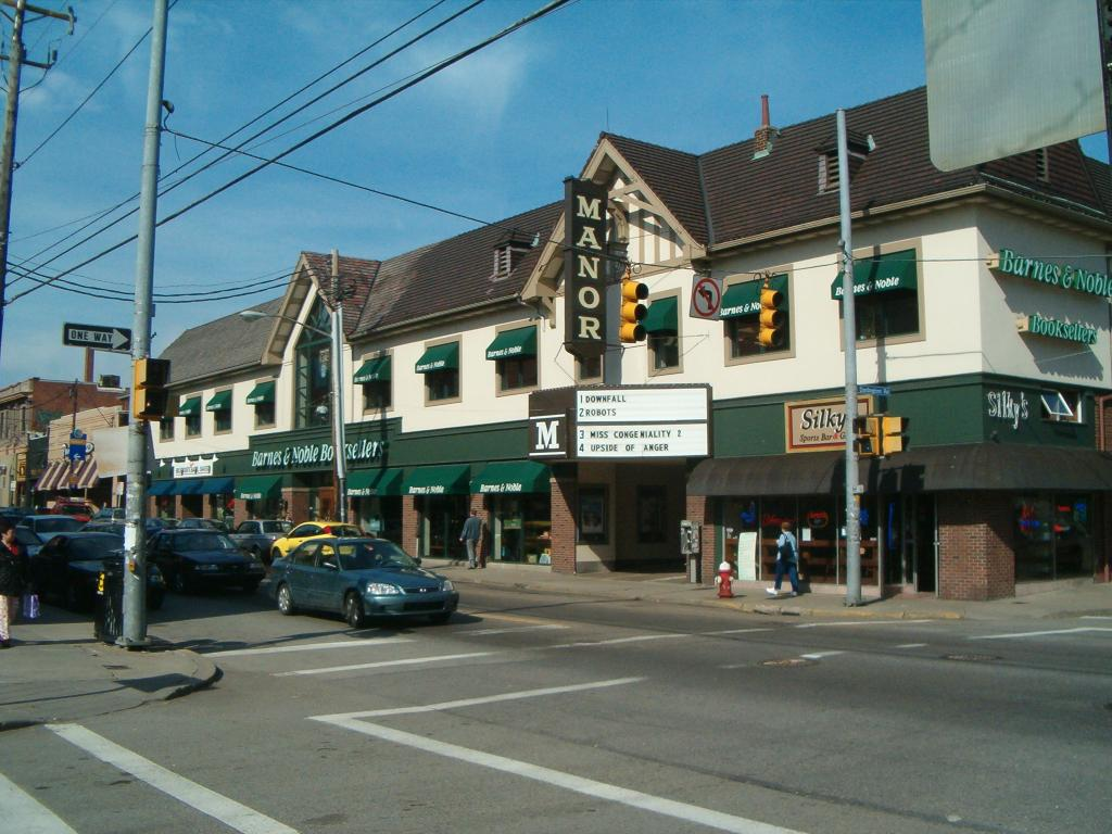 This is a picture of Murray Avenue in Squirrel Hill. Source: Taken by ClarkBHM This picture was taken by me in April 2005.